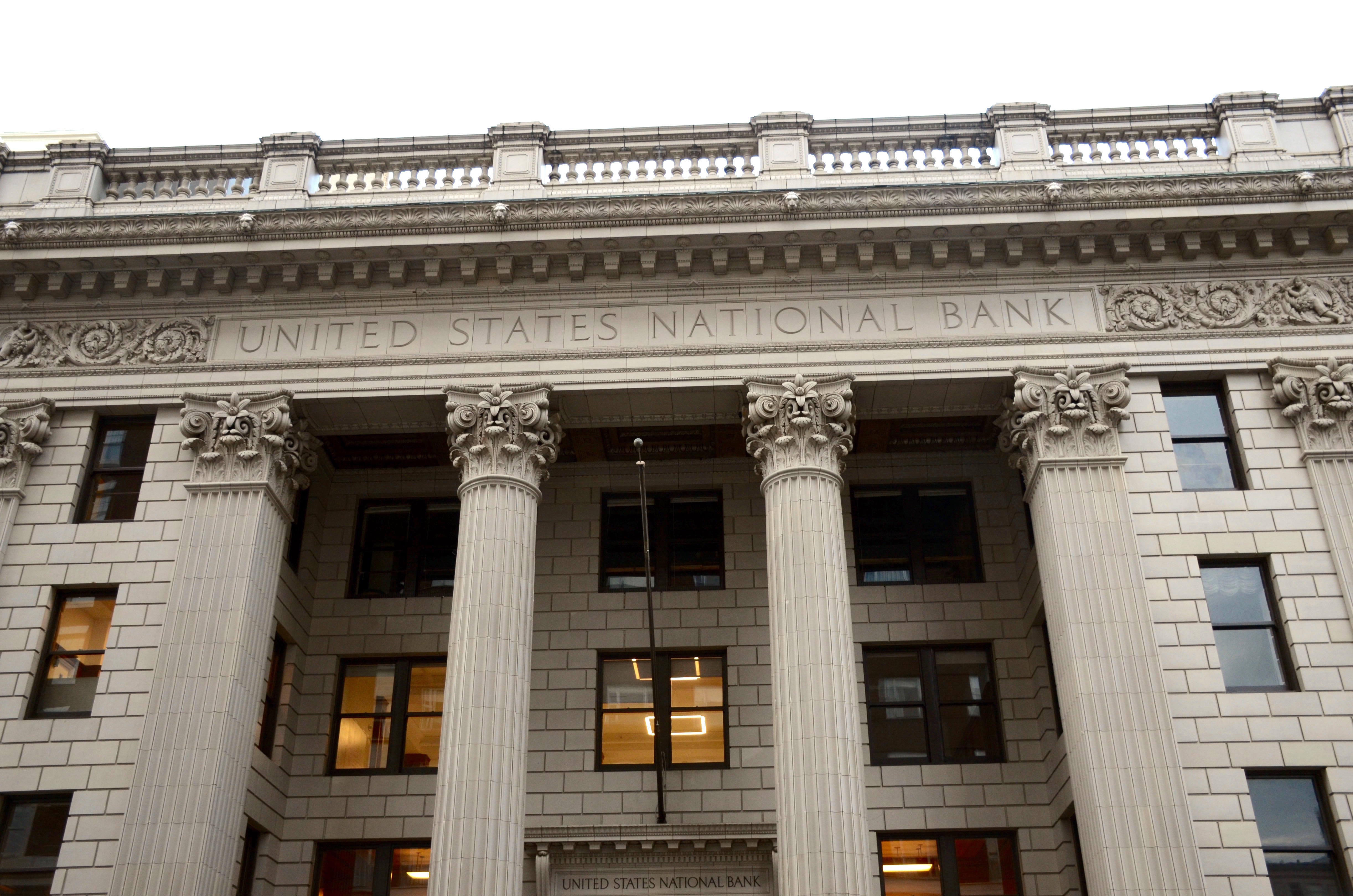 The upper portion of the west façade of the United States National Bank Building, in Portland, Oregon. This part of the building, facing Broadway, was added in 1925. Unlike the façade of the building's original section (built in 1916), this façade includes "United States National Bank" inscribed on the frieze.